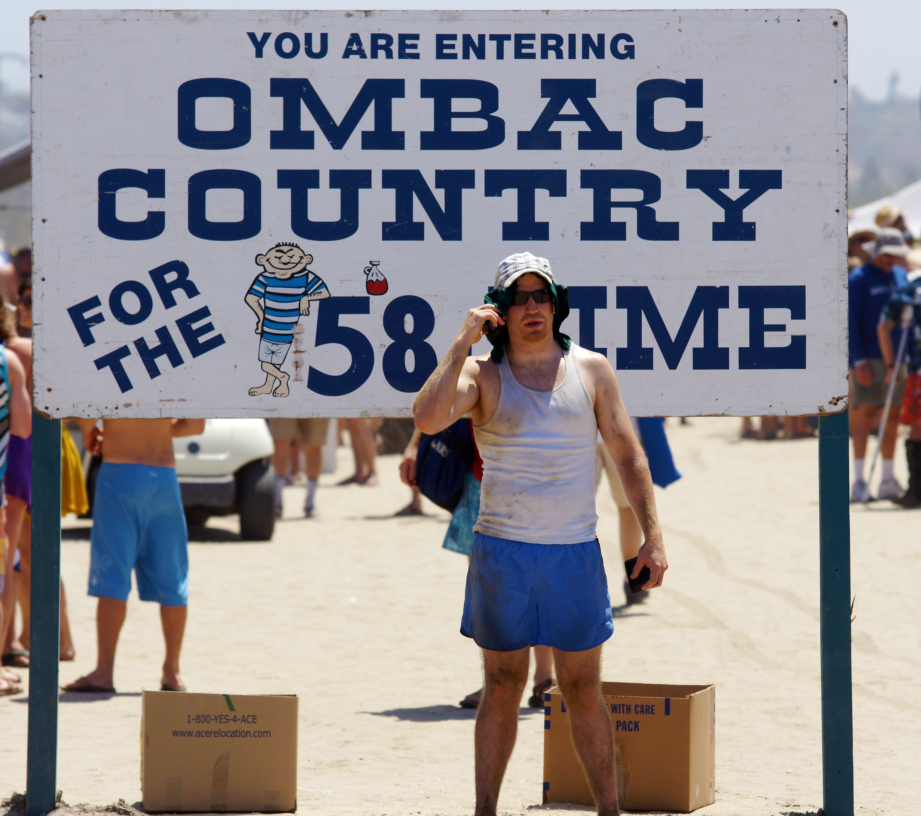 Old Mission Bay Aquatic Club sign at San Diego's Over The Line event